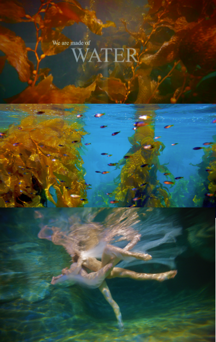 The Liquescent Project Images from the film